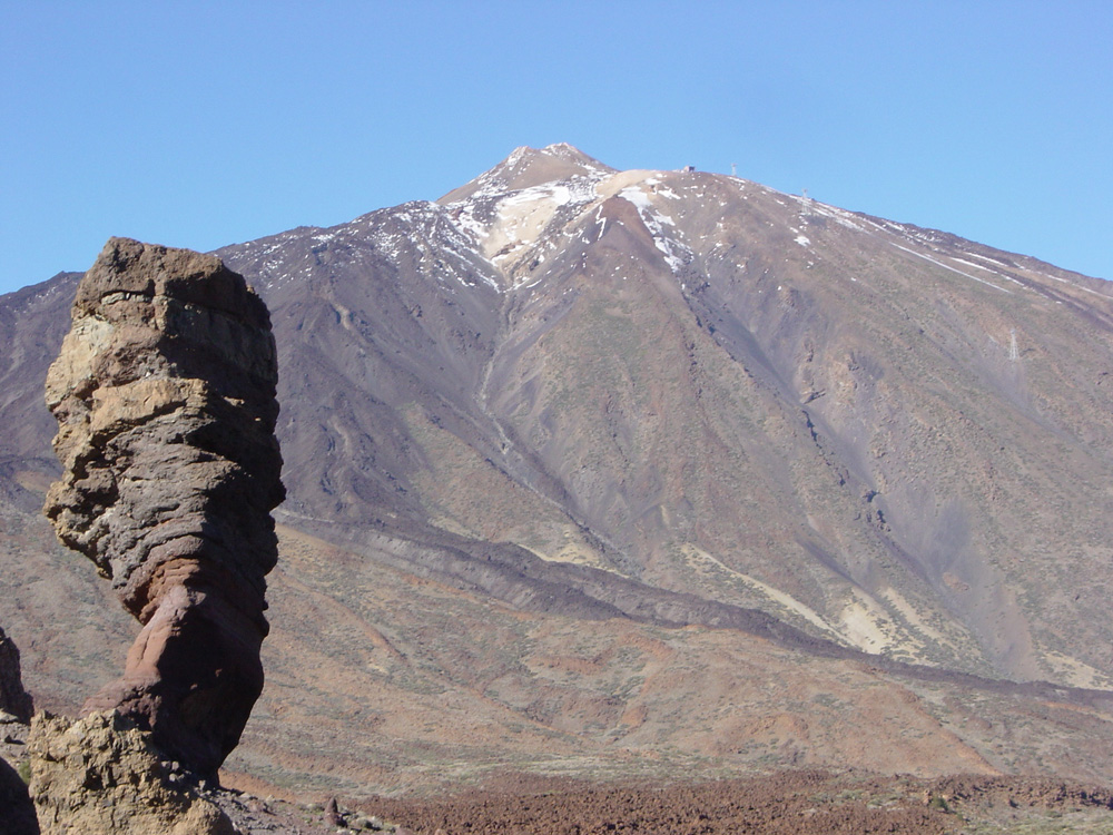 Roque Cinchado with Teide, Tenerife, Canarias